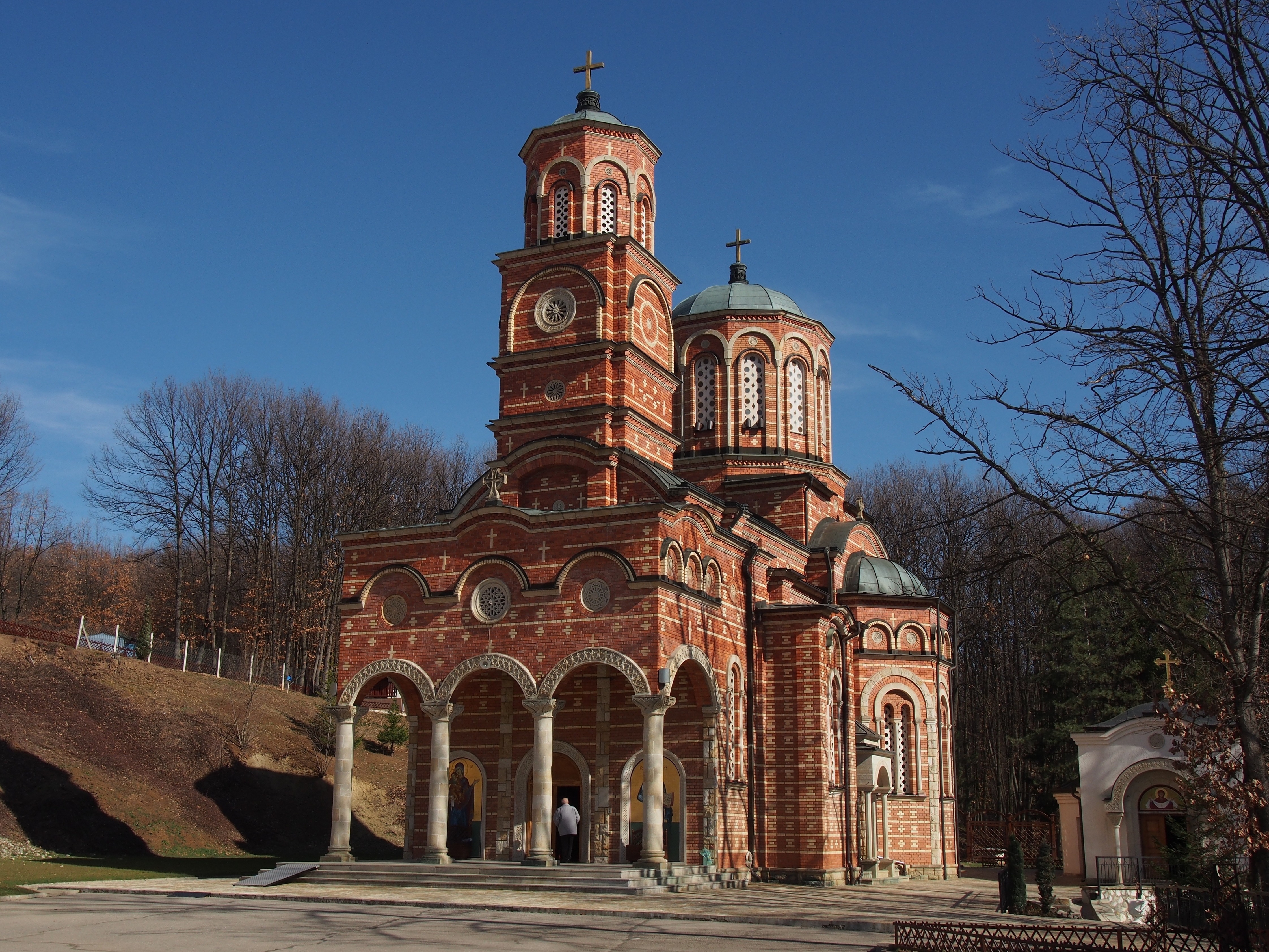 Đunis Monastery